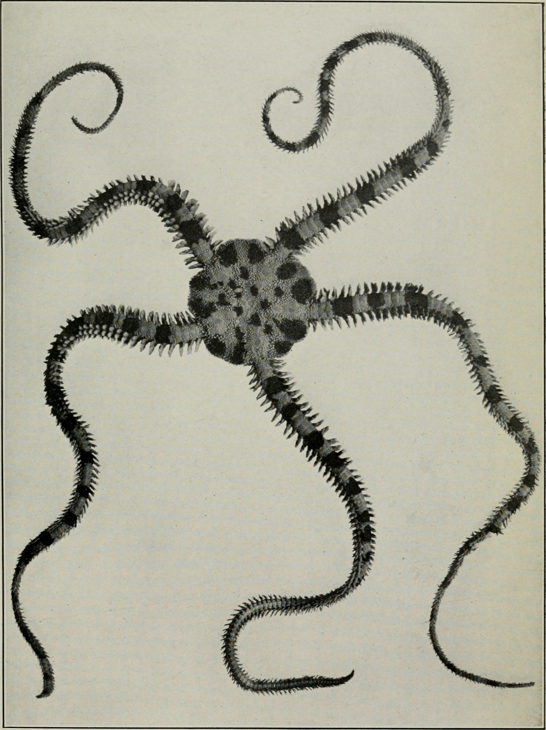 Title: Bulletin Year: 1904- (1900s) Authors: State Geological and Natural History Survey of Connecticut Subjects: Geology -- Connecticut; Animals -- Connecticut; Plants -- Connecticut Publisher: (Hartford) : The Survey Text Appearing Before Image: ' Text Appearing After Image: Plate XVI, Daisy Brittle-star, Ophiopholis aculeata. ( One and one-half times natural size.)